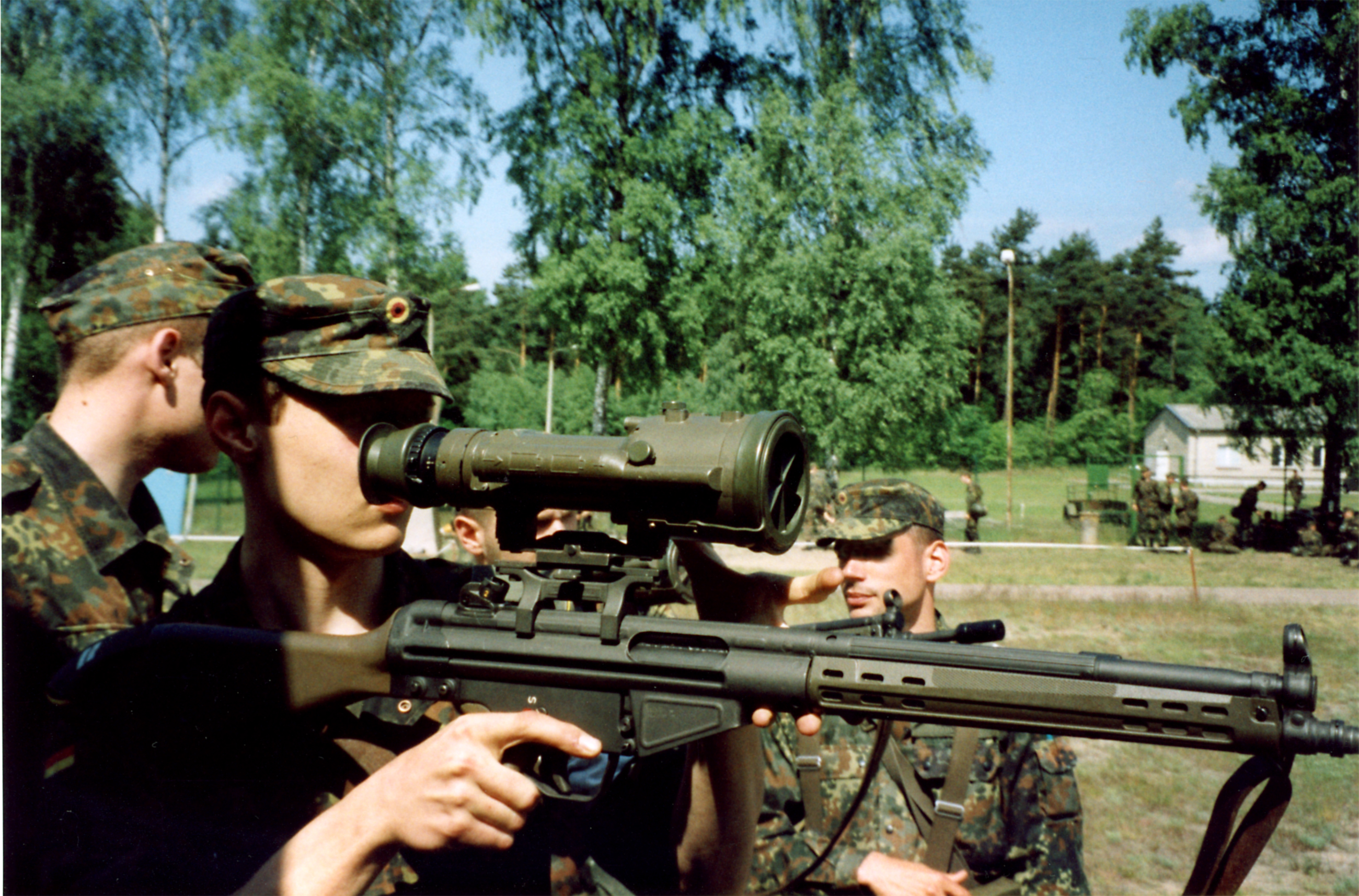 Soldiers of the german Bundeswehr carrying the Heckler & Koch G3 with night vision scope (image intensifier). Note the protection cap is closed since it is day-time.